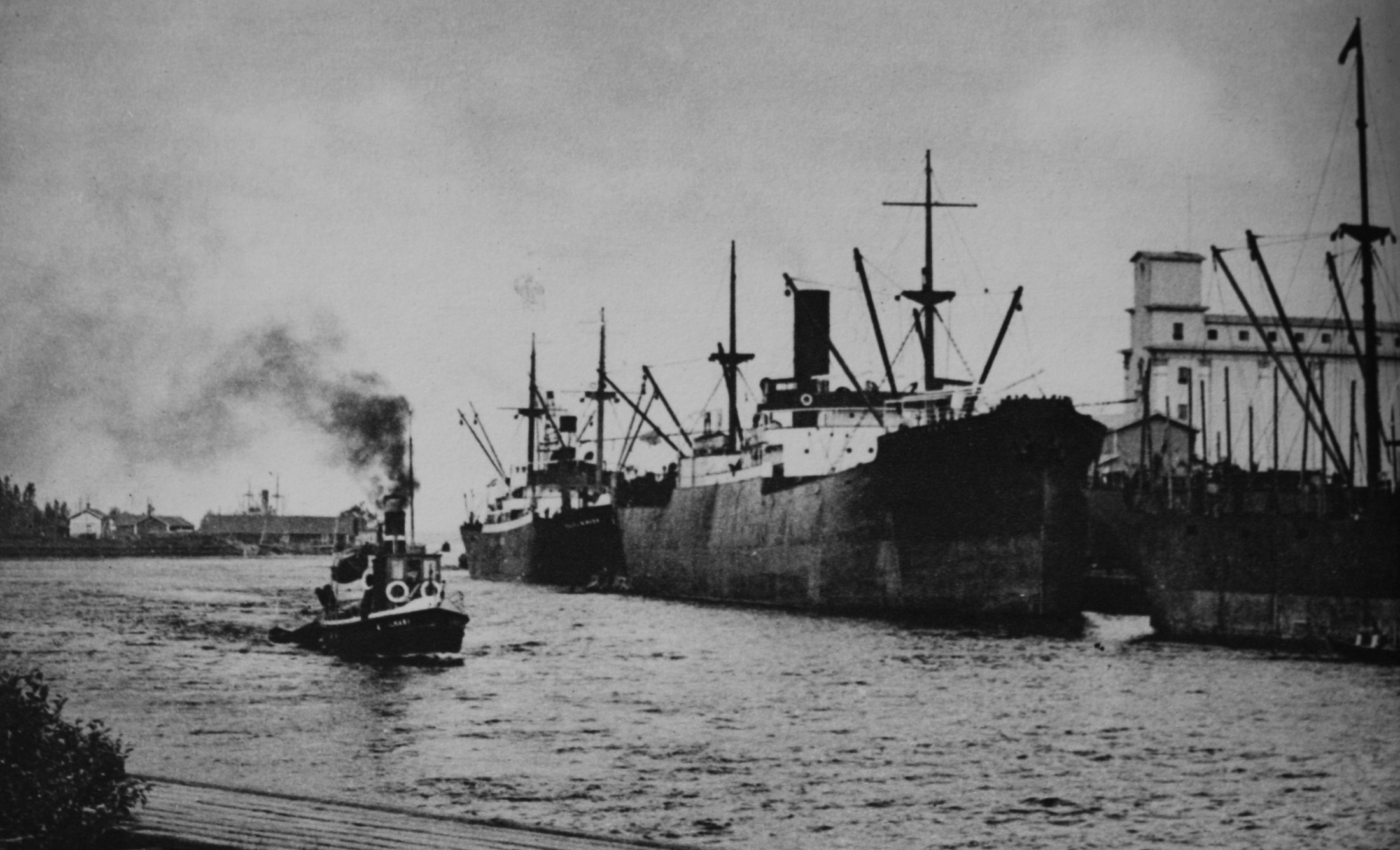 Toppila harbour in Oulu, Finland.